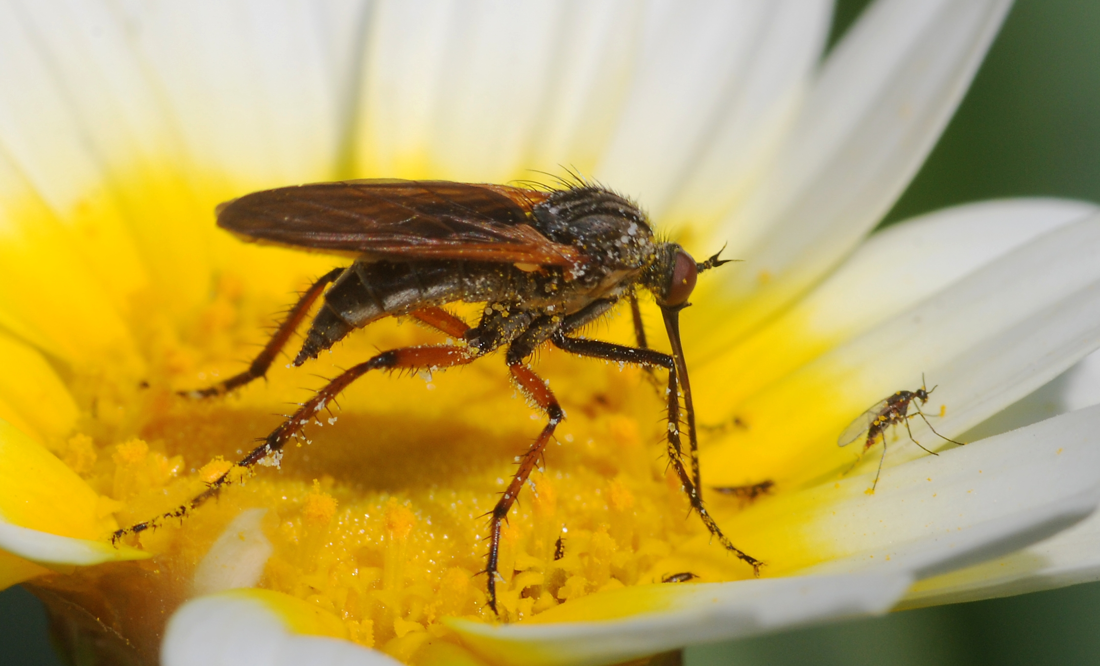 Empis opaca fly with unidentified female Cecidomyiidae